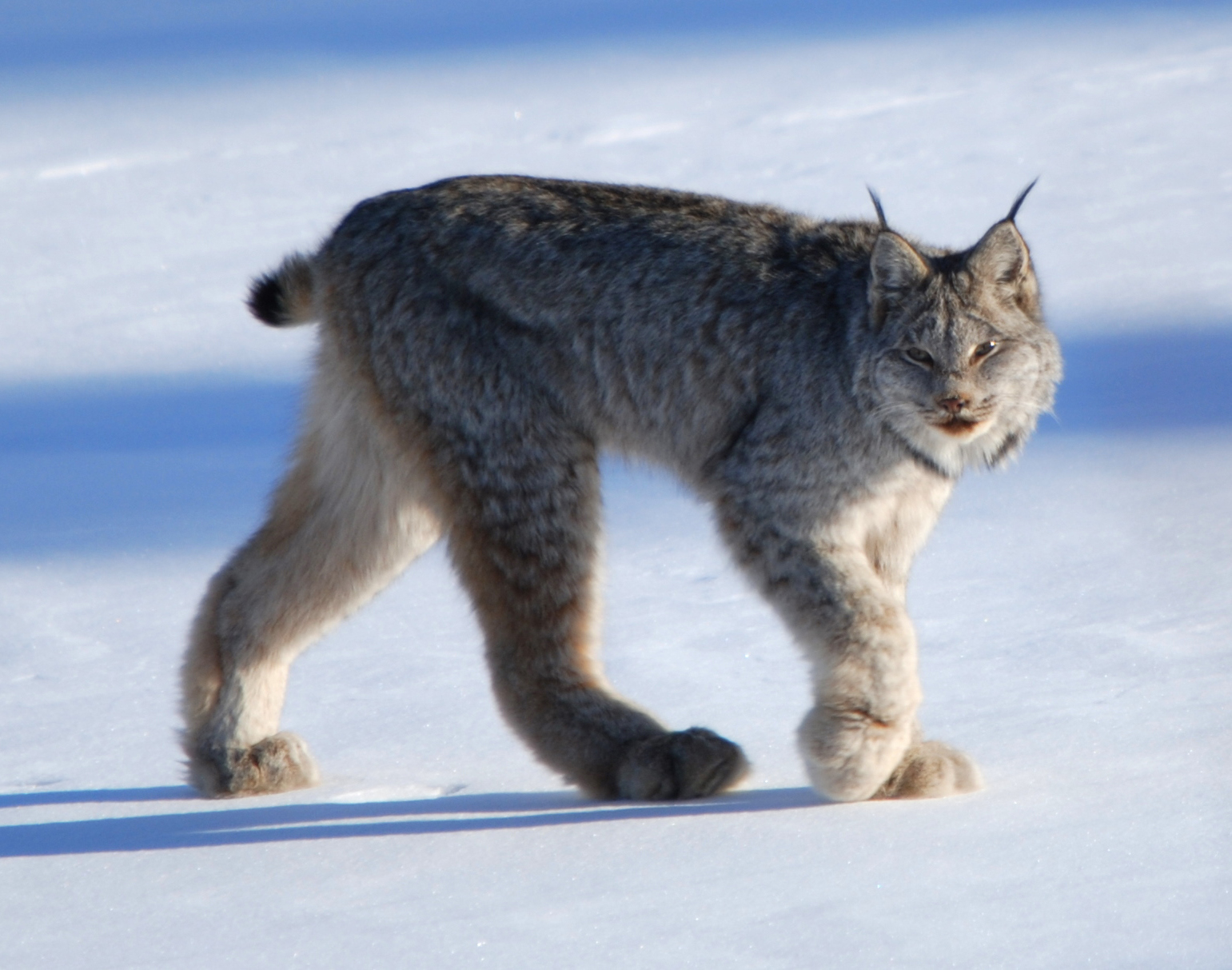 Canadian lynx near Annie Lake, south of Whitehorse, Yukon.